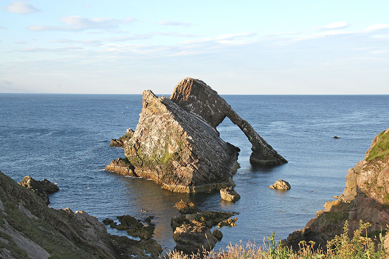 Image of Bo Fiddle Rock near Portknockie